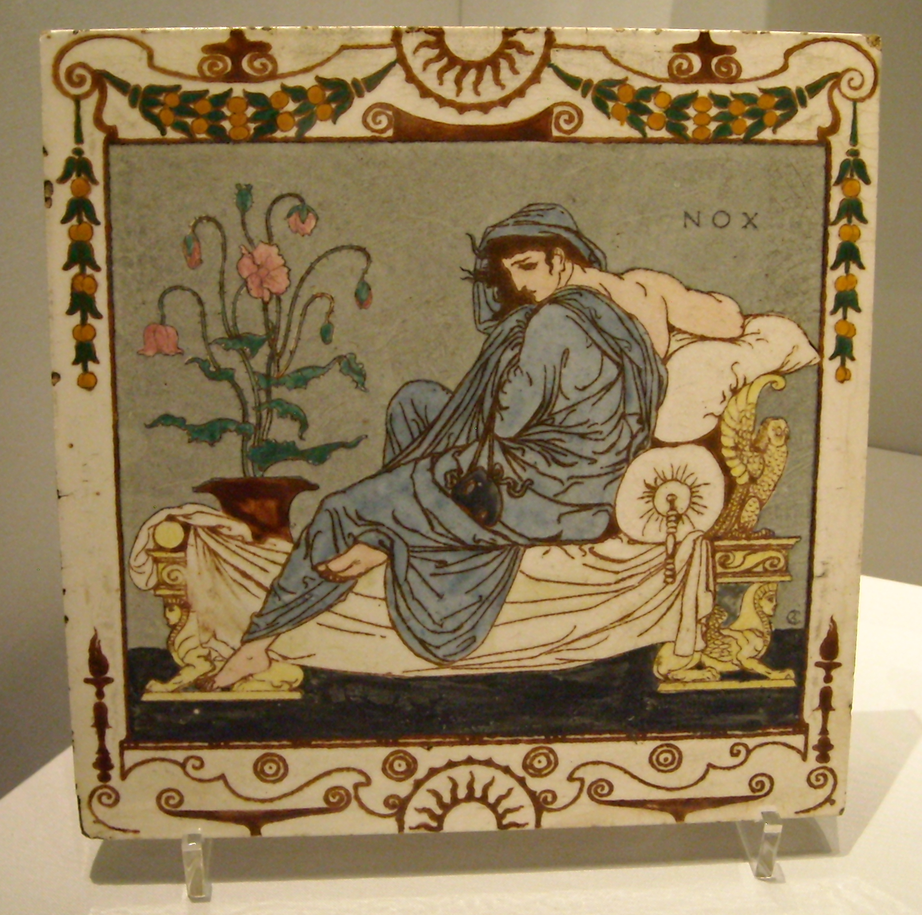 A handpainted earthenware tile made around 1878 by Maw and company, designed by Walter Crane. One of a series depicting times of the day. On display in The Higgins museum and gallery, Bedford.